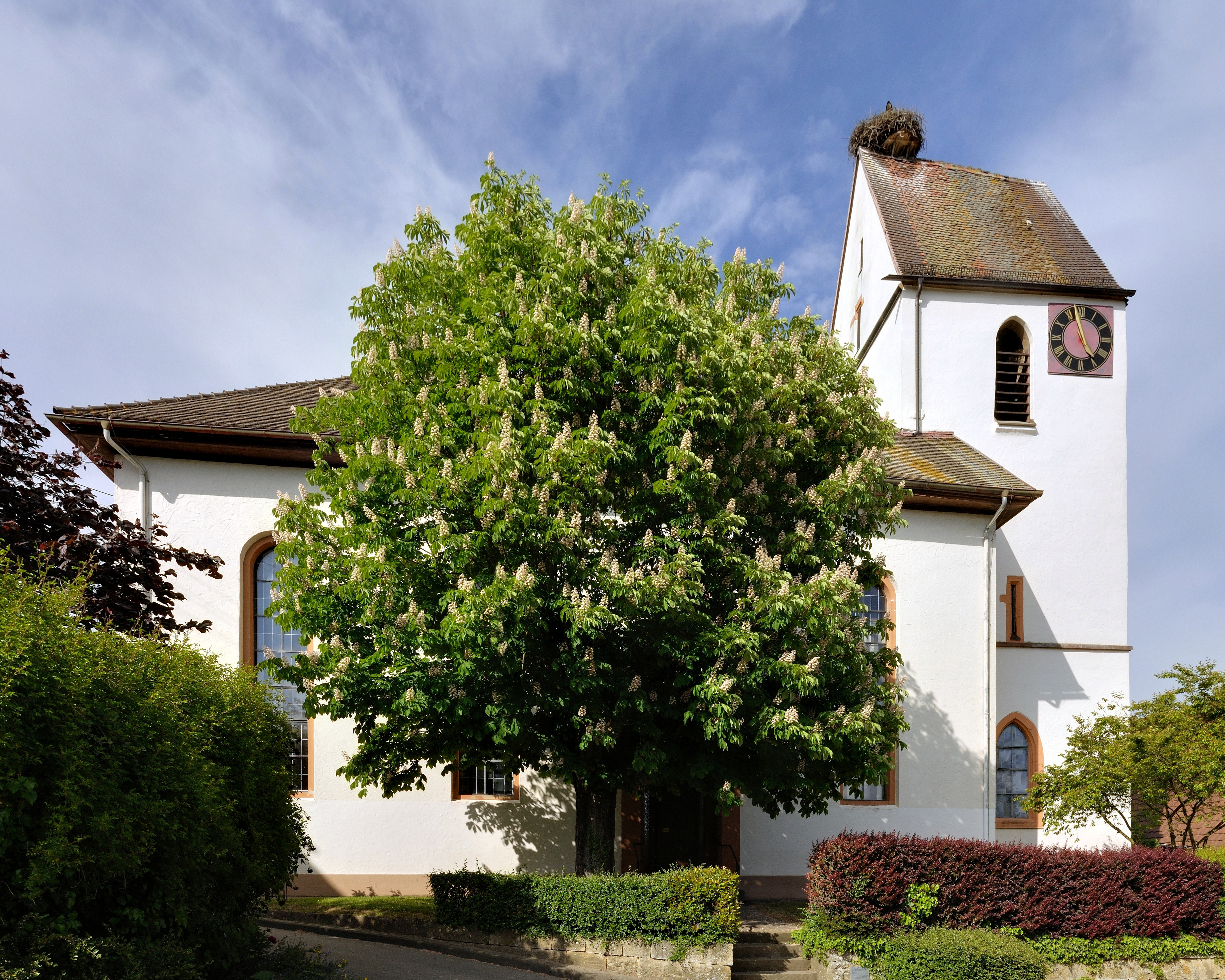 Mappach: Protestant Church